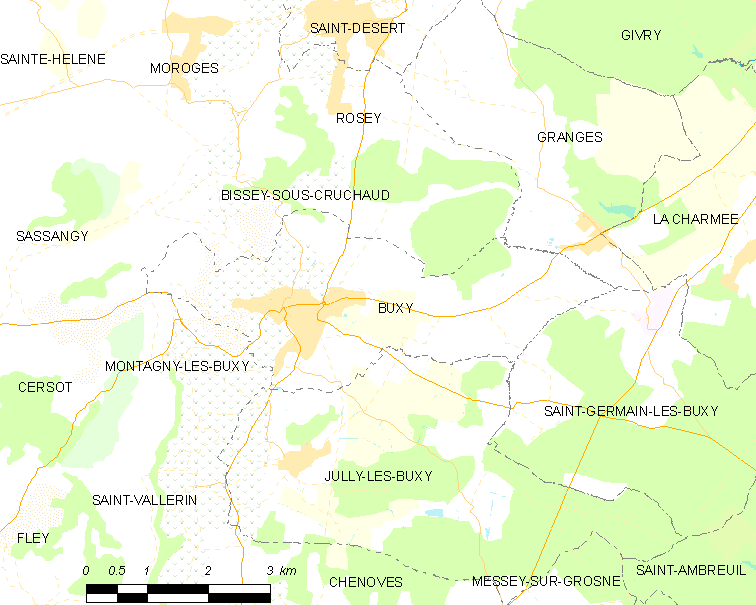 Map of French municipality